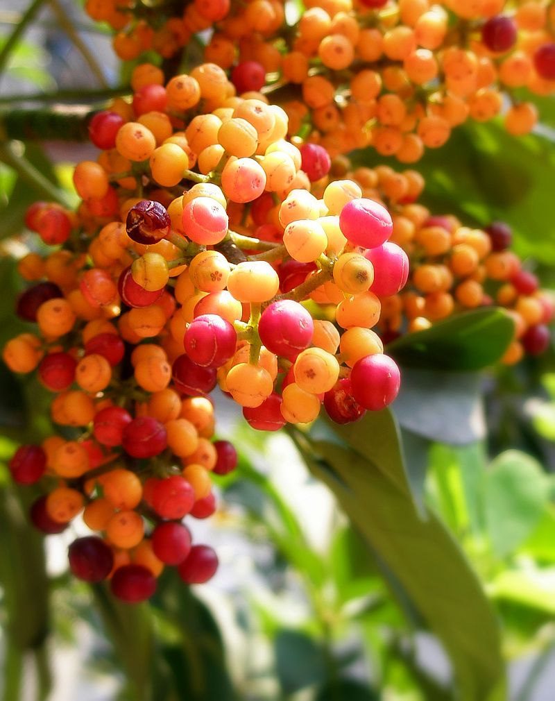 Schefflera arboricola